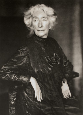 Portrait of Cosima Wagner, 1905